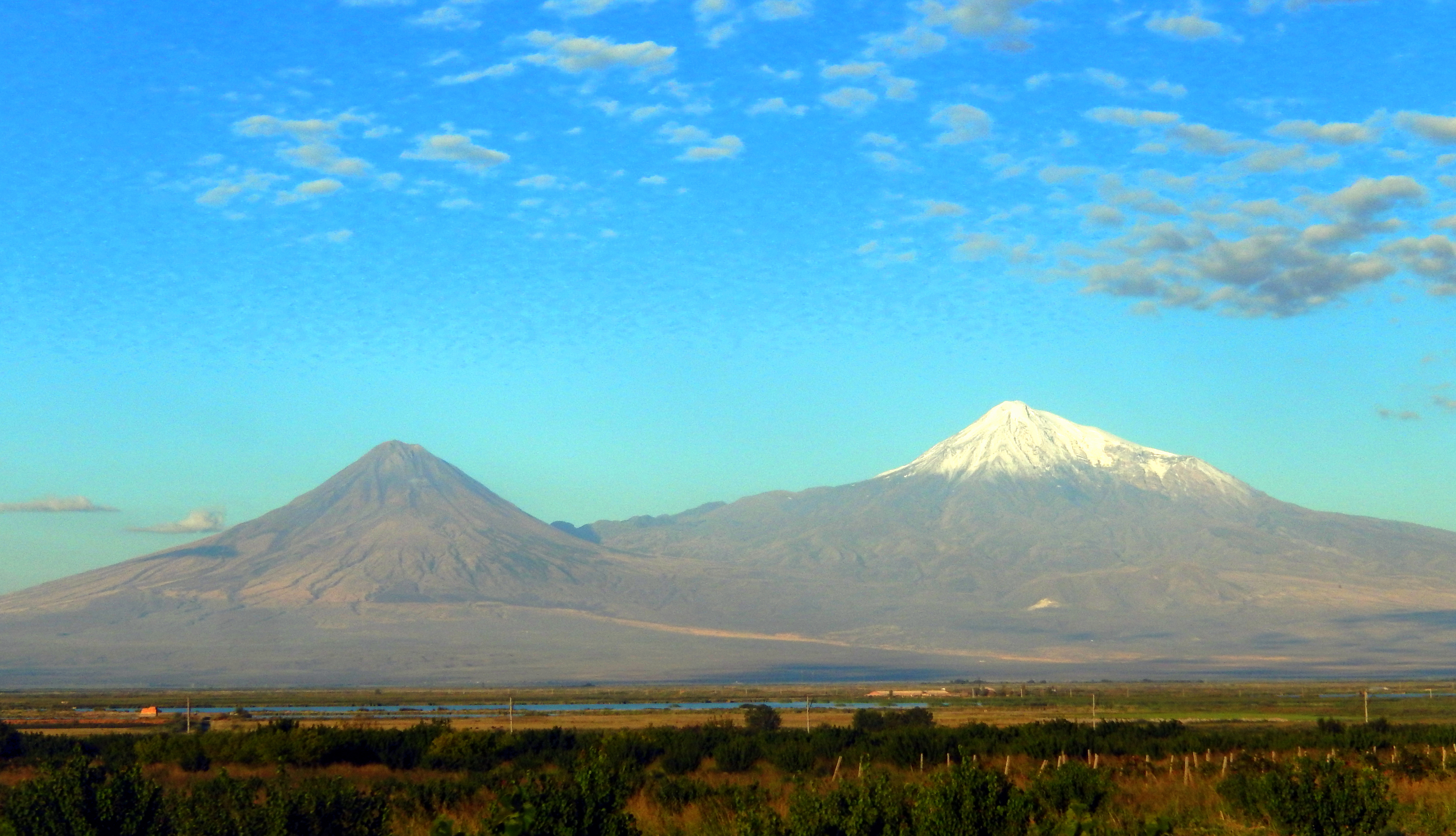 Mount Ararat from Armash Village